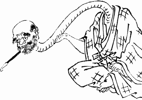 Mikoshi-nyūdō (a spirit which grows as fast as you can look up at it) from the Tanomiari-bakemono-no-majiwari